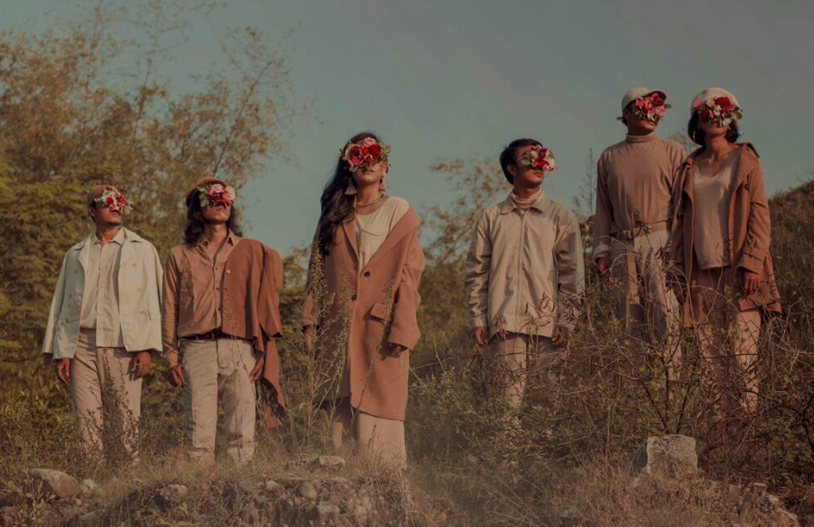 AATPSC